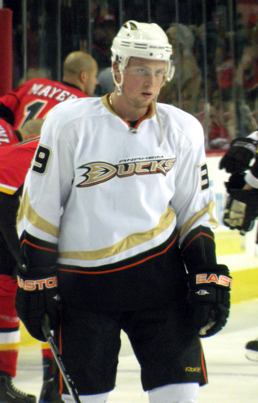 Anaheim Ducks forward Matt Beleskey prior to a National Hockey League game against the Calgary Flames.